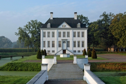 Haus Kolk, Niederrhein